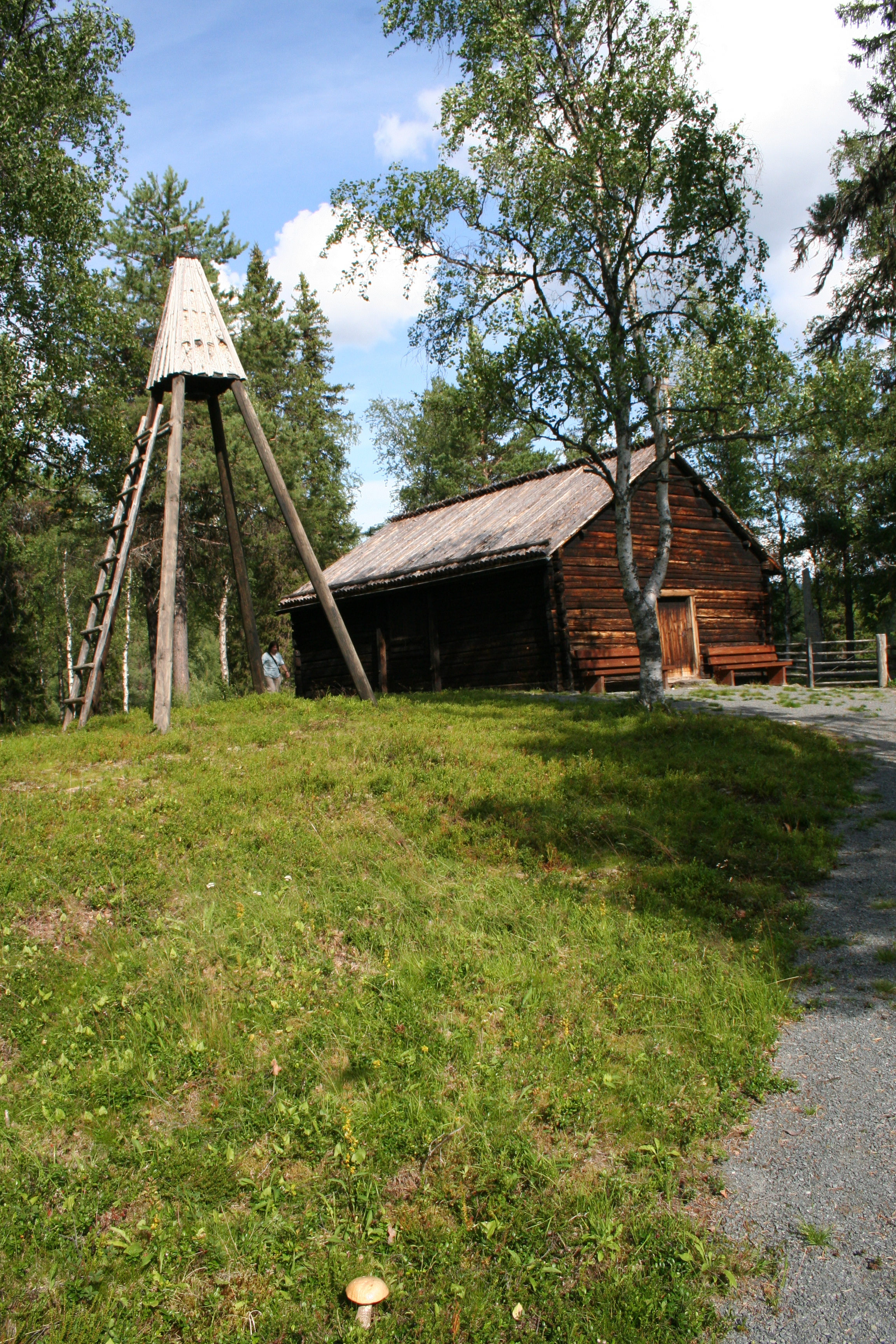 Gillesnuole-Chapel in Sweden